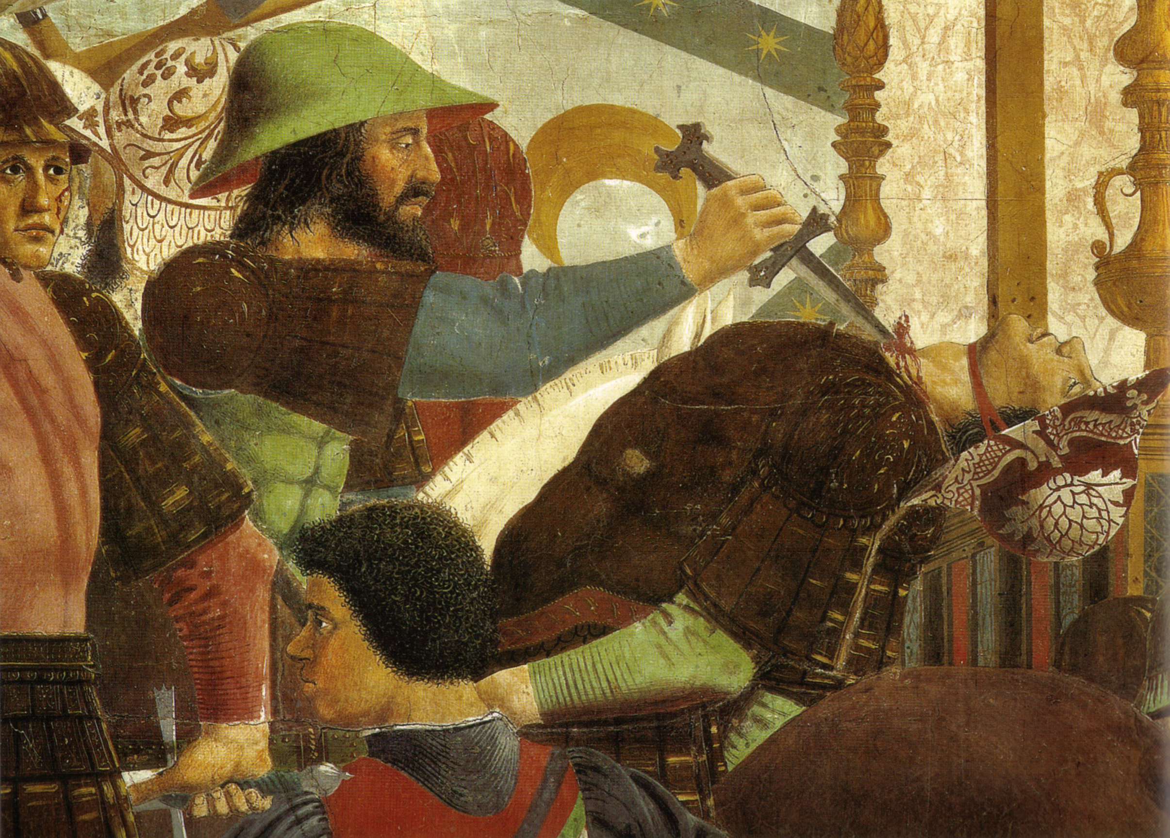 PIERO della FRANCESCA Battle between Heraclius and Chosroes Fresco, 329 x 747 cm San Francesco, Arezzo